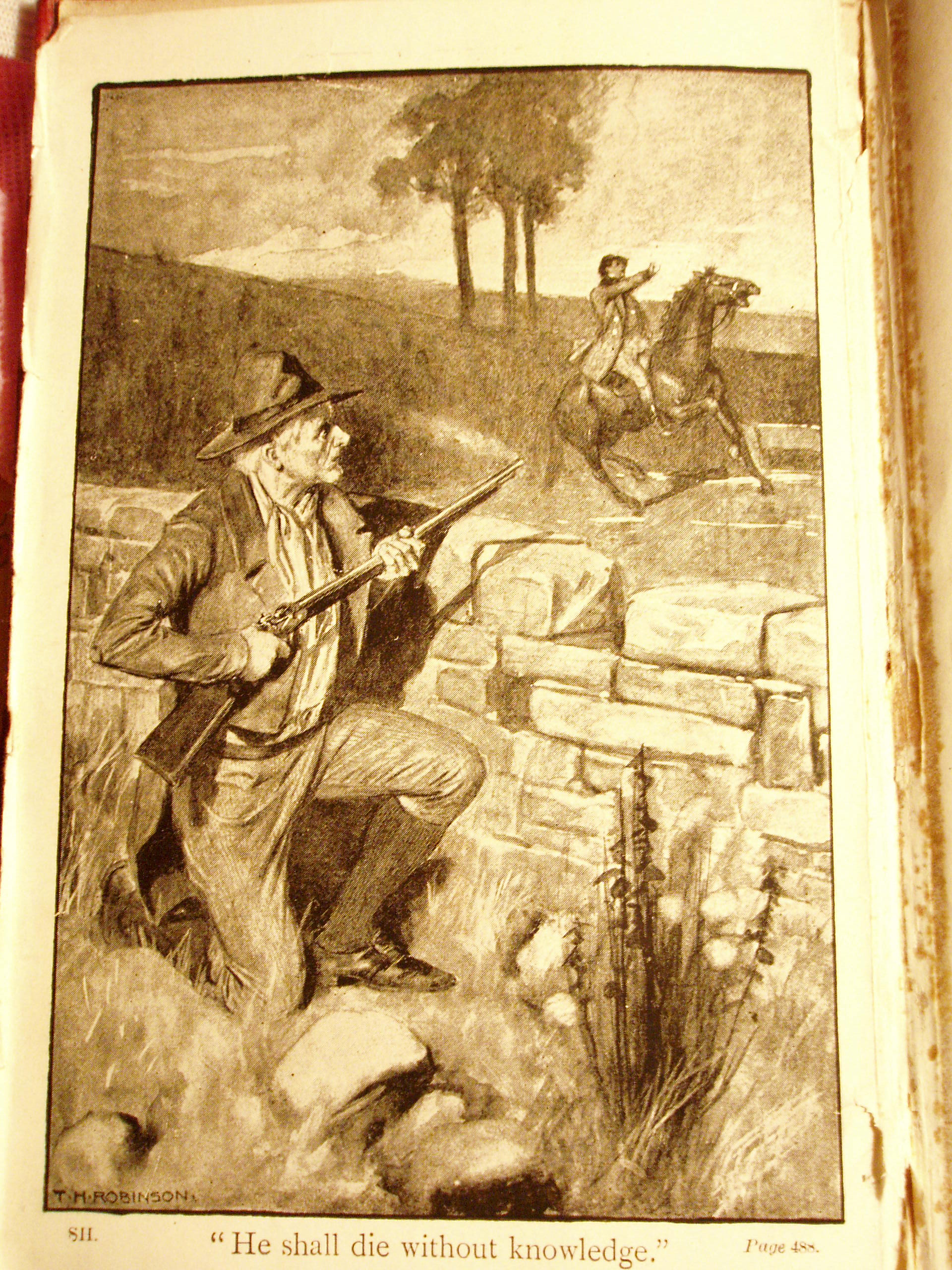 Illustration of Shirley by T. H. Robinson in a 1920 book